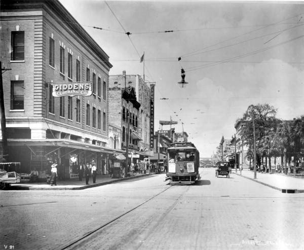 Persistent URL: Local call number: RC06804 Title: Intersection of Franklin and Lafayette Streets in Tampa, Florida Date: 1911 Physical descrip: 1 photonprint - b&w - 8 x 10 in. Series Title: Reference Collection Repository: State Library and Archives of Florida 500 S. Bronough St., Tallahassee, FL, 32399-0250 USA, Contact: 850.245.6700